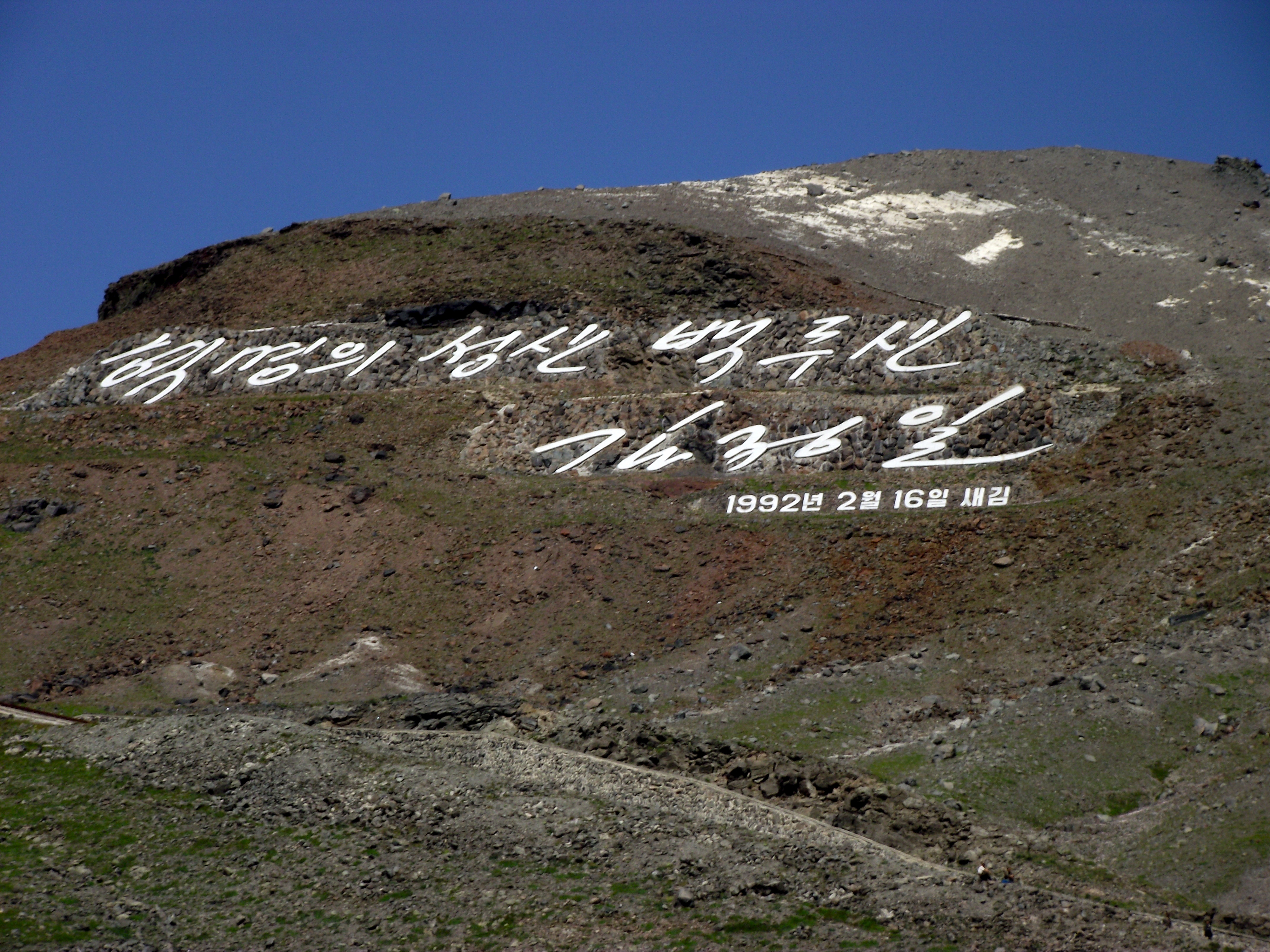 A citation of Kim Jong Il on Hyangdo Peak: "Mount Paektu - the Holy mountain of the revolution".